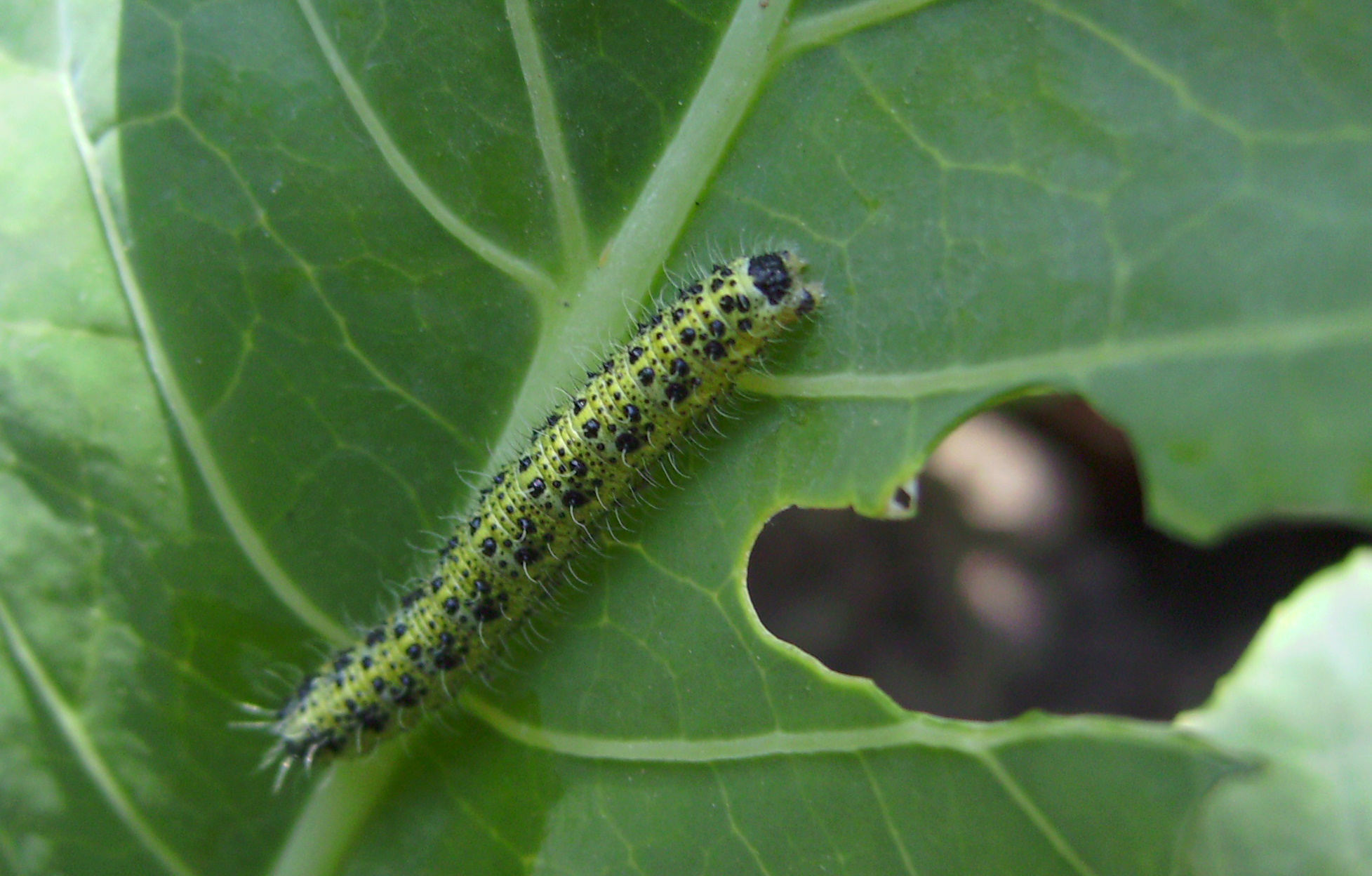 Caterpillar of Pieris brassicae on Brassica oleracea crop, Castelltallat, Catalonia